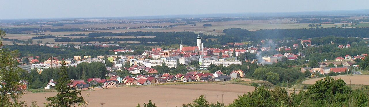 View on Zlotoryja from Wilcza Gora. Poland